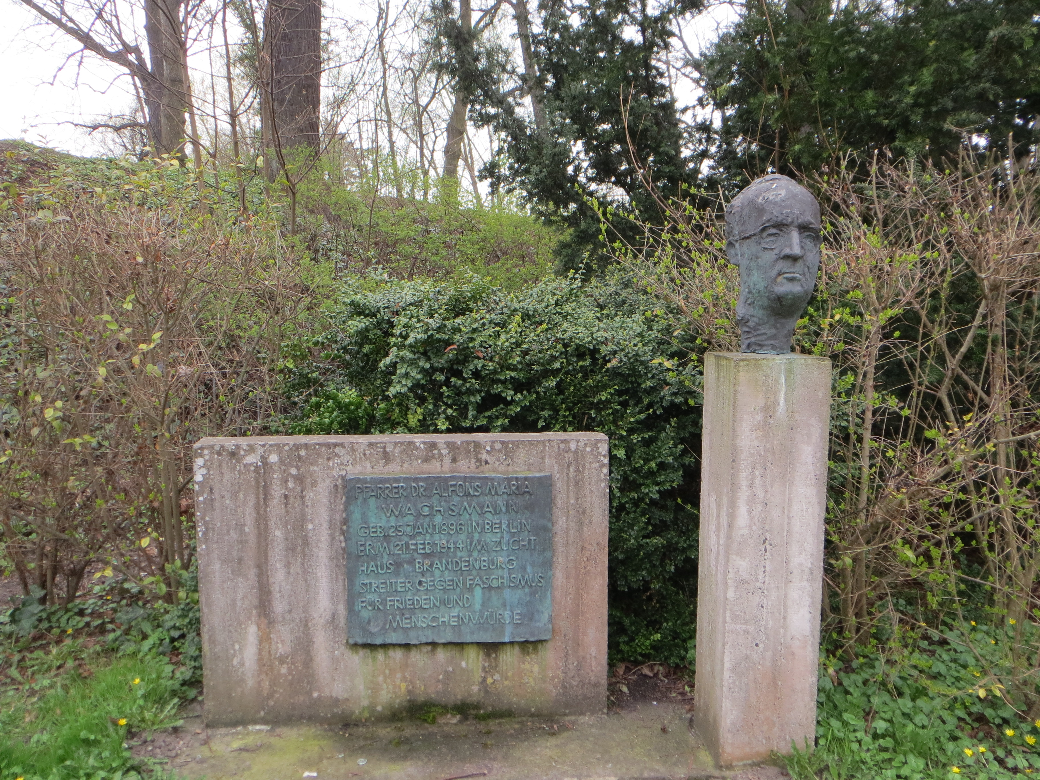 Memorial to Alfons Maria Wachsmann, Rubenowstr. Greifswald